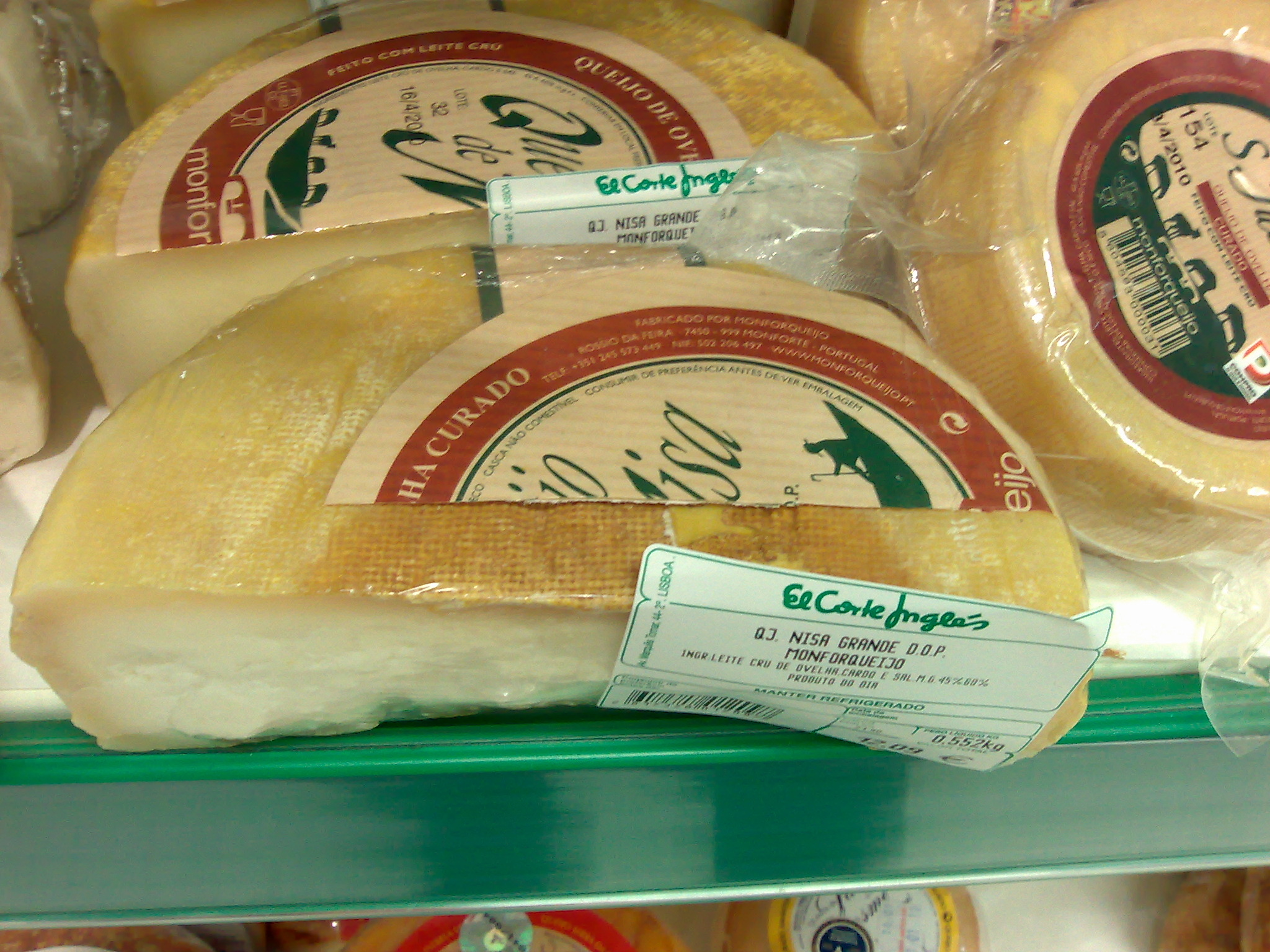 Queijo de Nisa, a portuguese cheese.